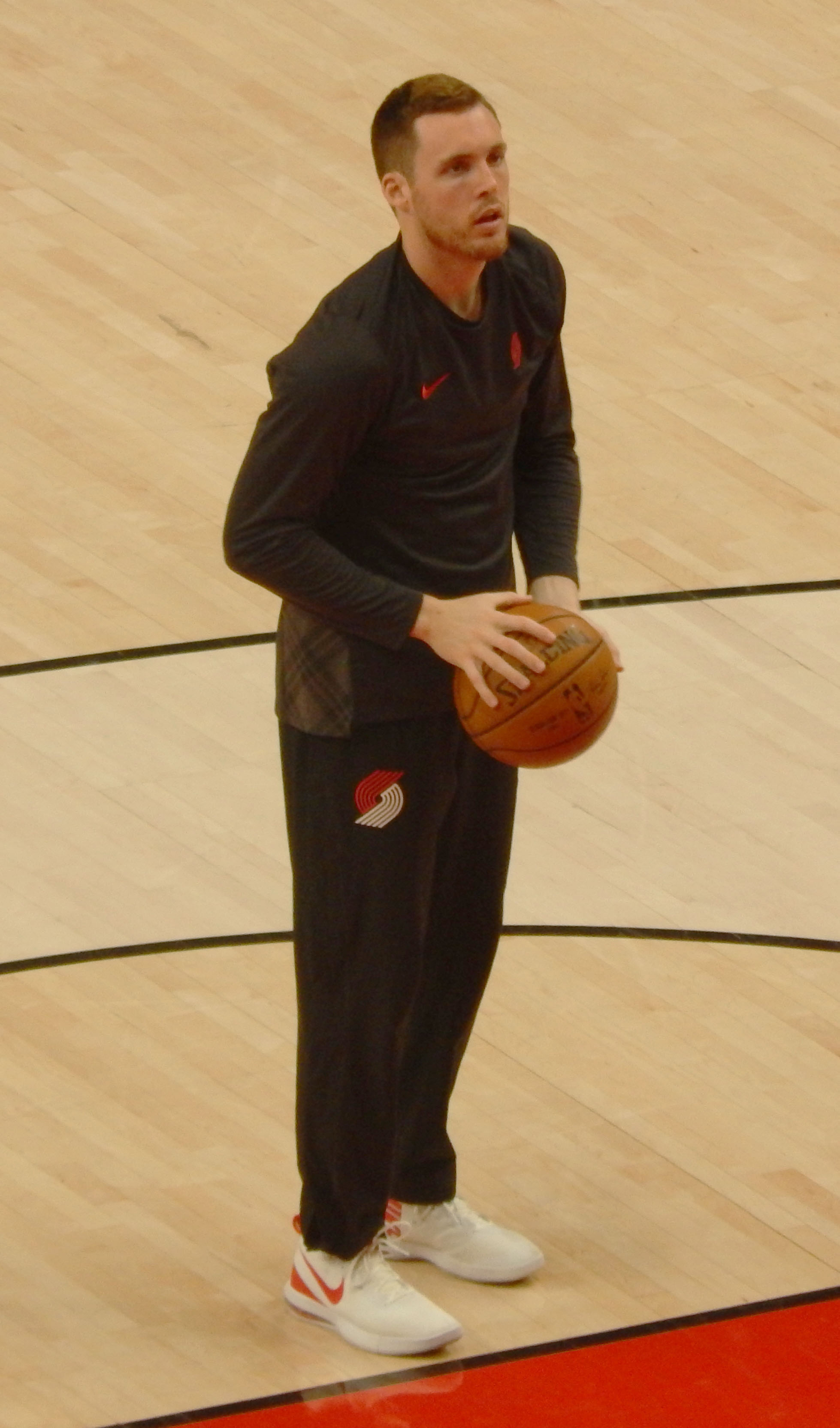 Pat Connaughton #5 of the Portland Trail Blazers against the Miami Heat on March 12, 2018 at Moda Center in Portland, Oregon.